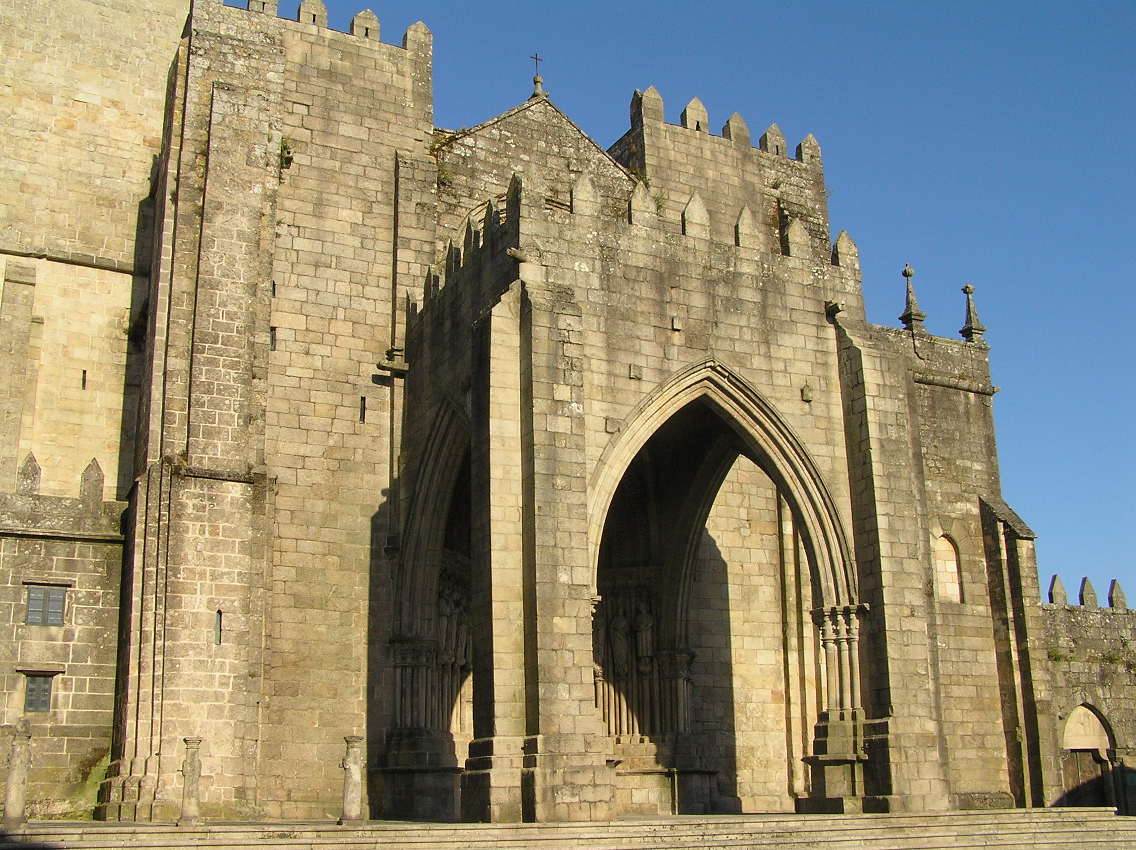 Cathedral of Tui (XI-XIII century) Katedra w Tui (XI-XIII wiek)